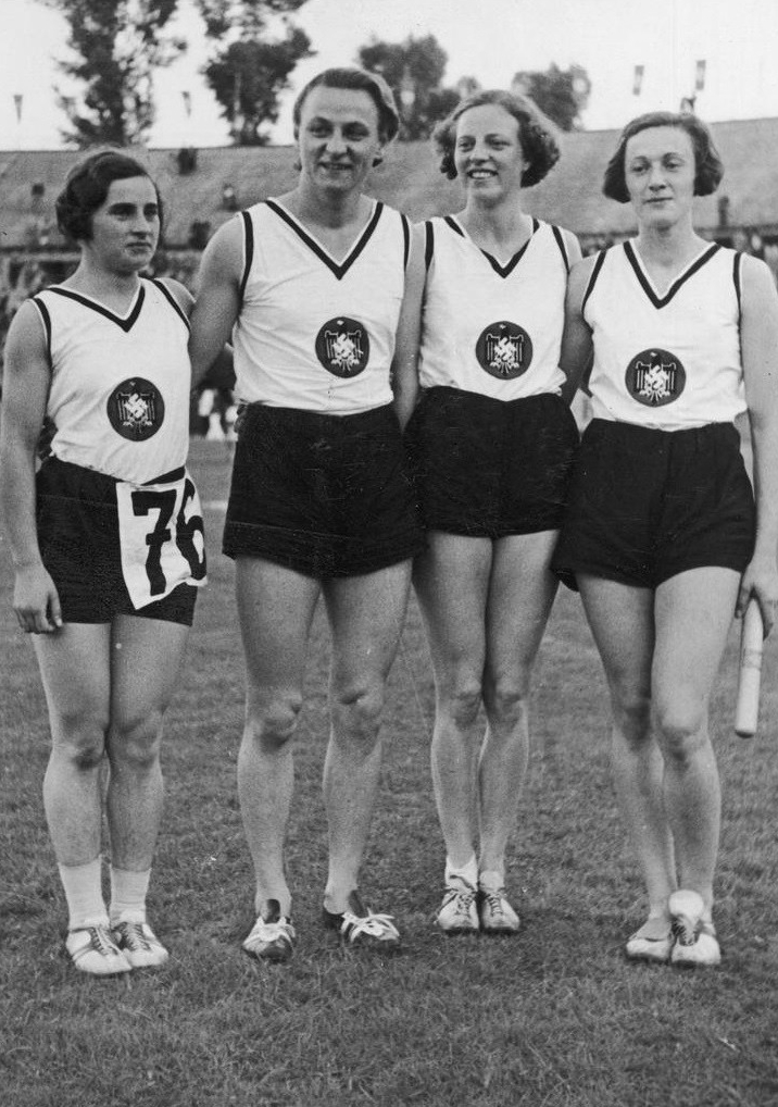 1938 European Athletics Championships (women), Vienna. Relay team Germany (left to right): 1 Josefine Kohl, 2 Käthe Krauß, 3 Emmy Albus 4 Ida Kühnel